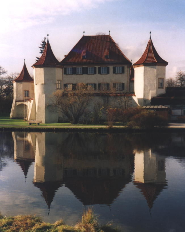 Blutenburg Castle, built in the 15th century, houses the International Youth Library since 1983.